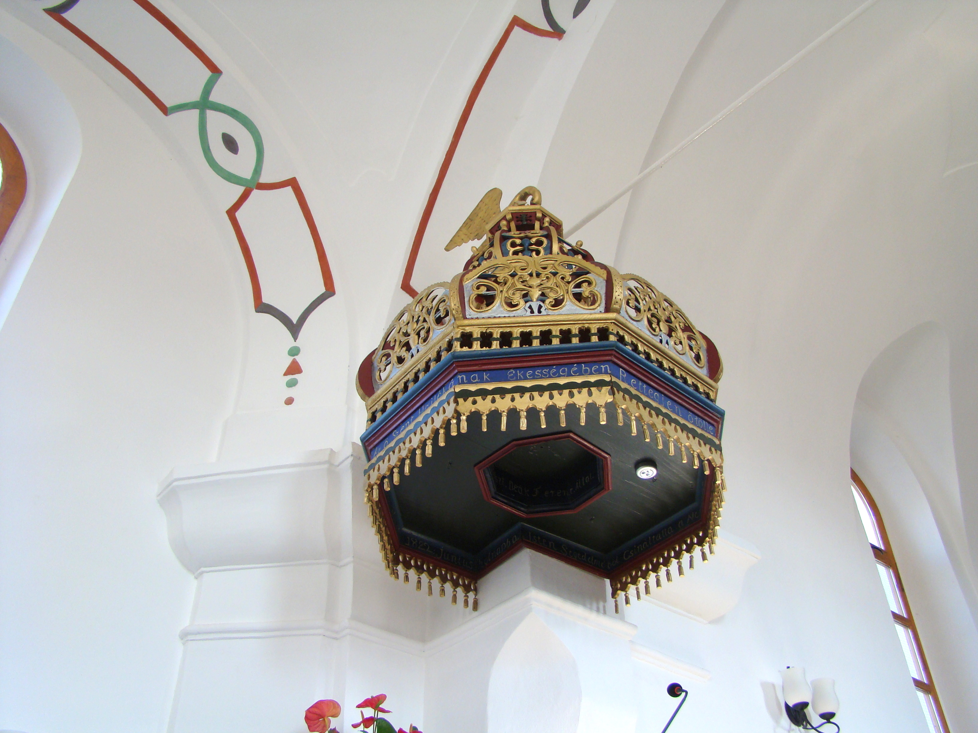 Reformed church in Berghia, Mureș County, Romania